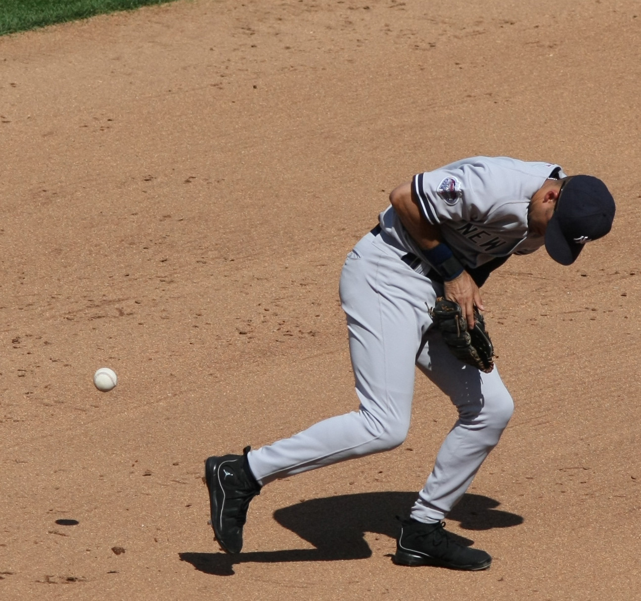 Description Yankees shortstop Derek Jeter making an error DateAugust 24, 2008Source user Keith AllisonPermission (Reusing this file) CC-BY-SA 15:13, 17 March 2009 . . Killervogel5 . . 1,296×1,215 (537 KB) Yankees shortstop Derek Jeter making an error